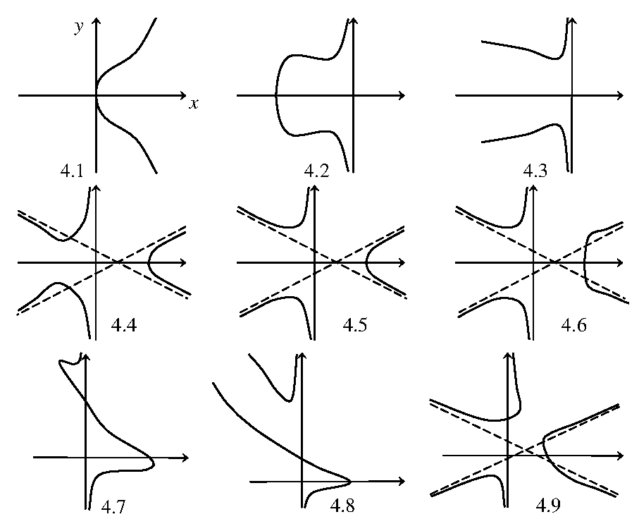 Classes from simple cubic